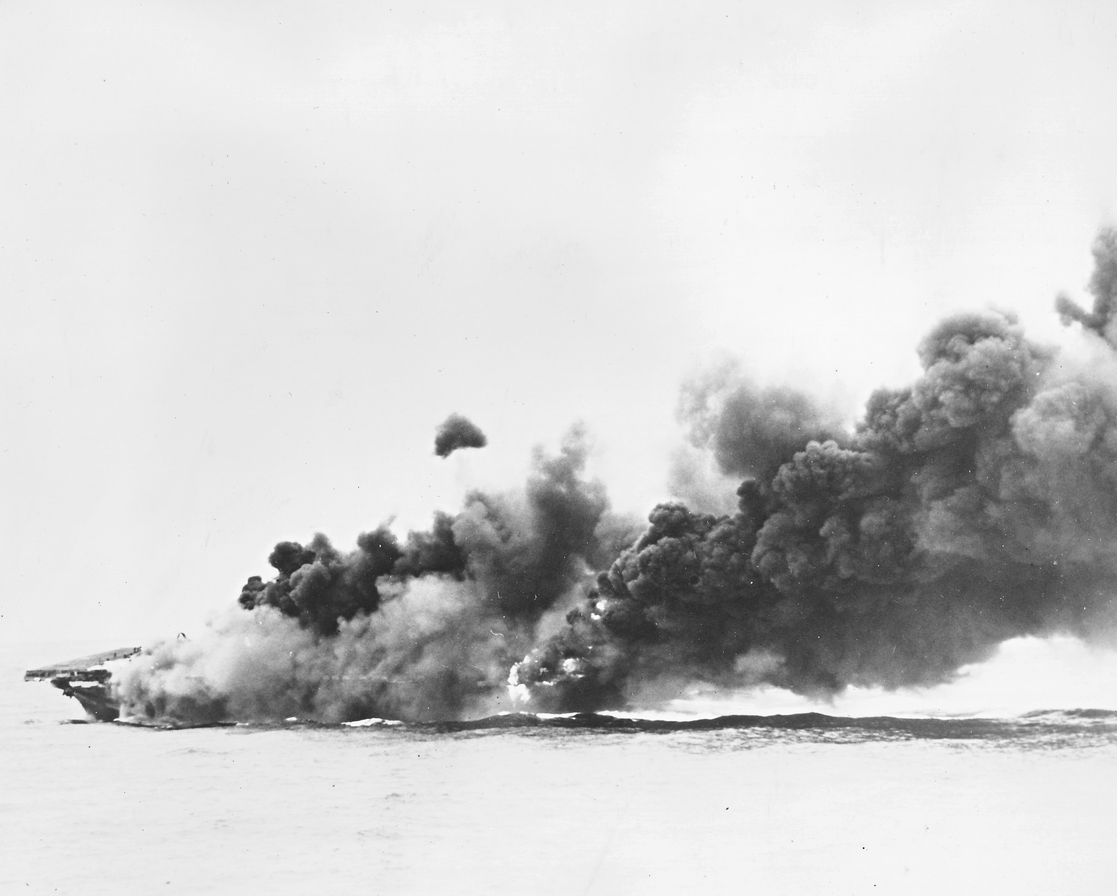 The U.S. Navy aircraft carrier USS Hancock (CV-19) afire after being hit by a kamikaze off Okinawa, 7 April 1945.